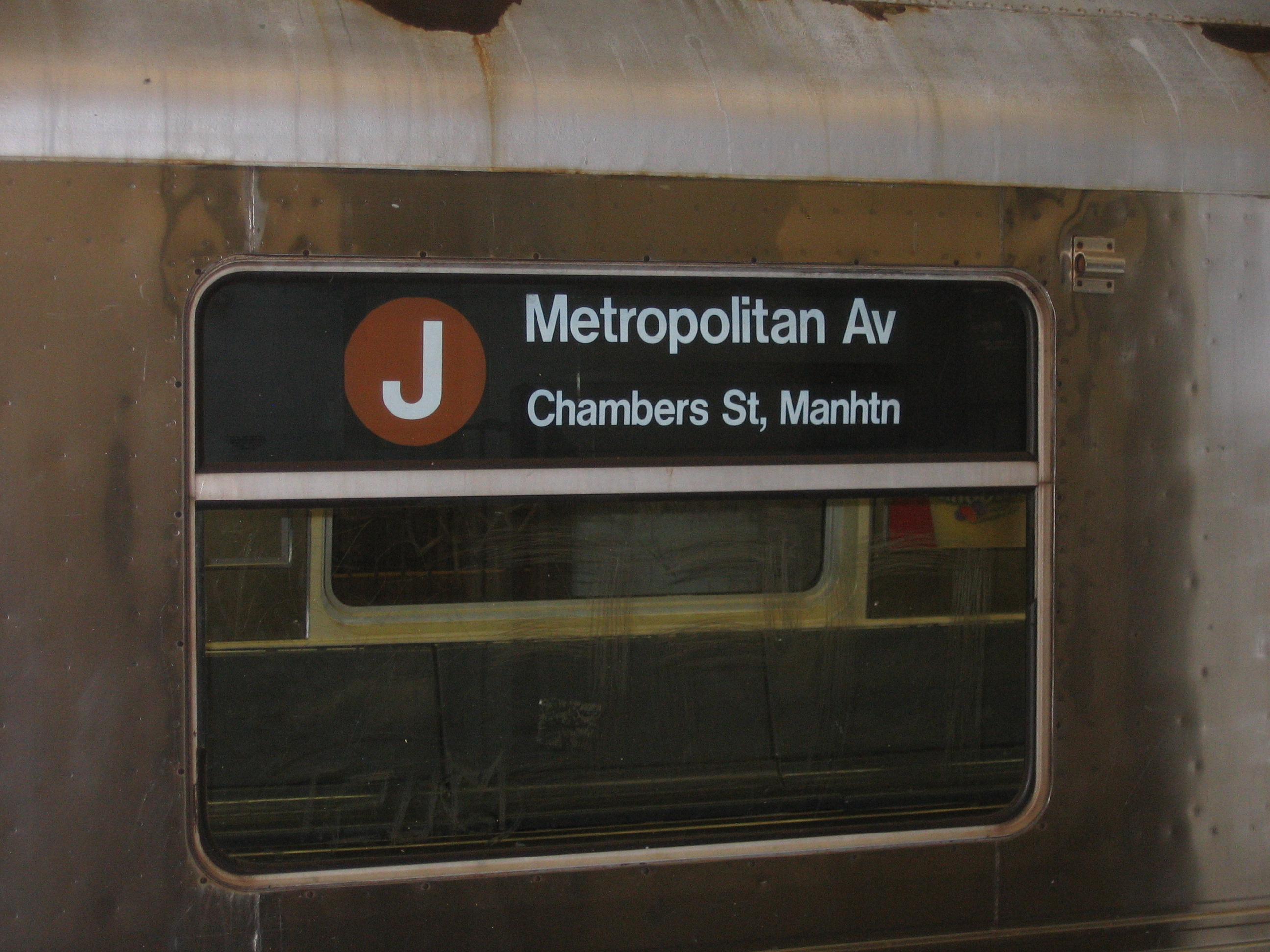 Chambers Street-bound train.